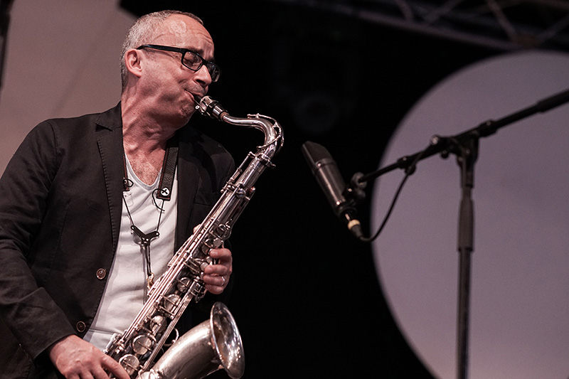 Julian Argüelles at Aarhus Jazz Festival 2017, playing with Aarhus Jazz Orchestra